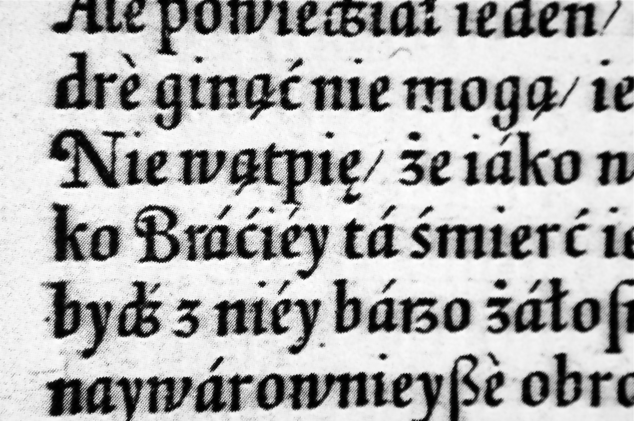 ę, ą and other Polish diacritics as seen in Jan Januszowski’s typeface Nowy karakter polski, Cracow, 1594